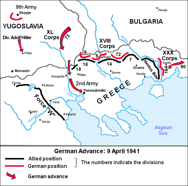 English translation based on French original Commons:Category:Maps of Greece Commons:Category:World War II Maps Commons:Category:1941